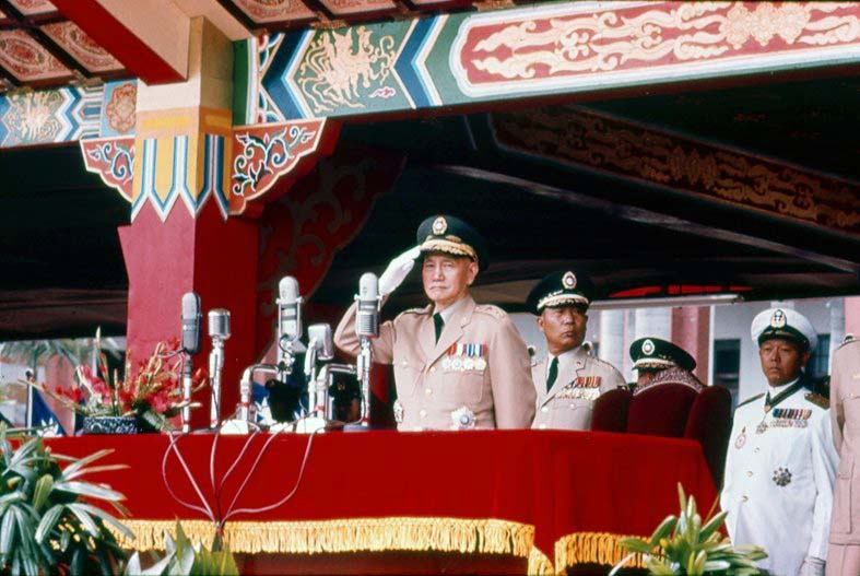 Double Ten Day Parade October 10, 1966. Les Duffin (SLK: 1962-63, 1964-66)